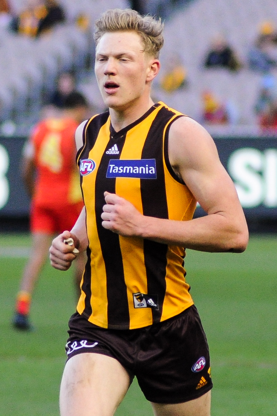 James Sicily during the AFL round twelve match between Melbourne and Collingwood on 10 June 2017 at the Melbourne Cricket Ground in Melbourne, Victoria.